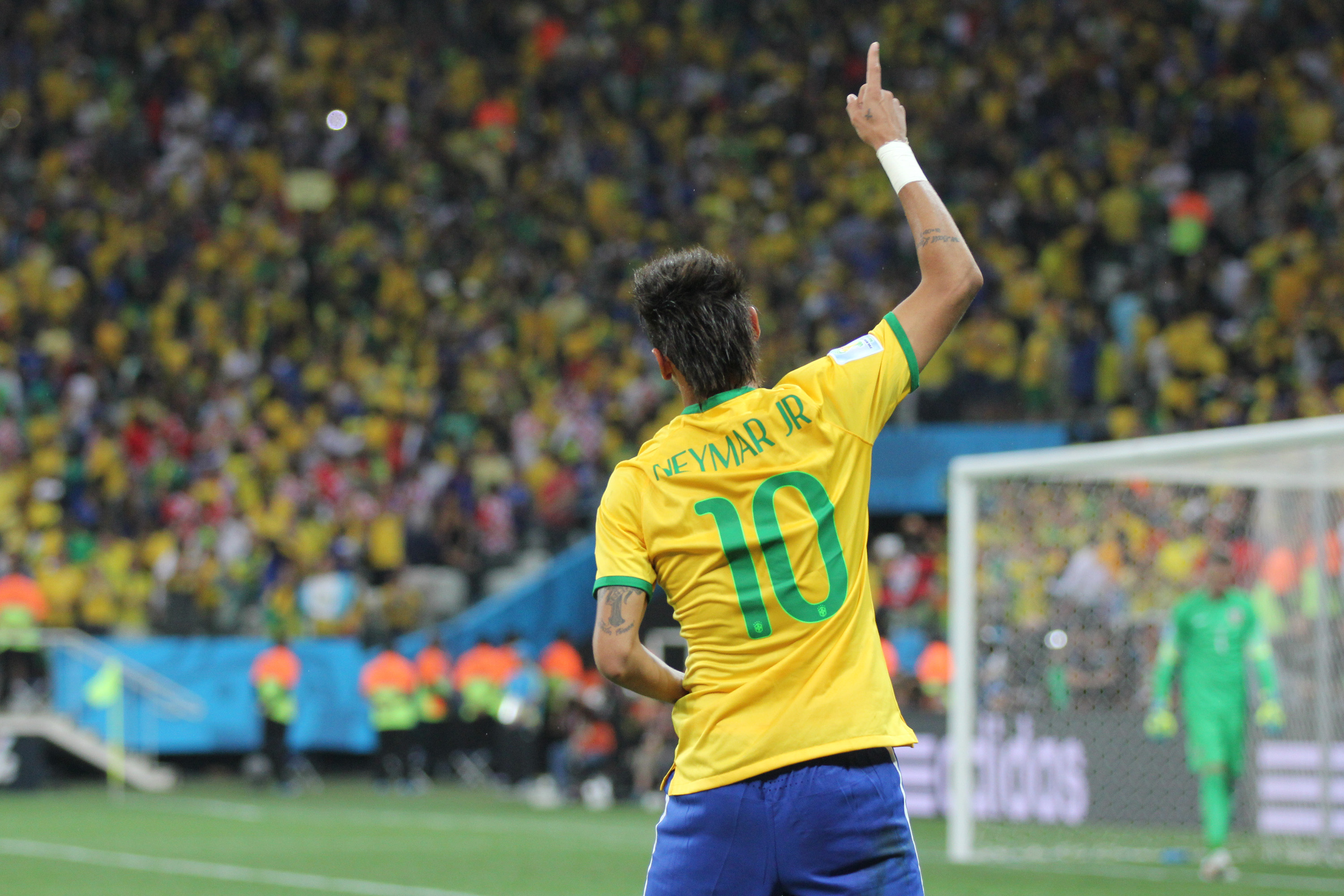 Brazil and Croatia match at the FIFA World Cup 2014-06-12